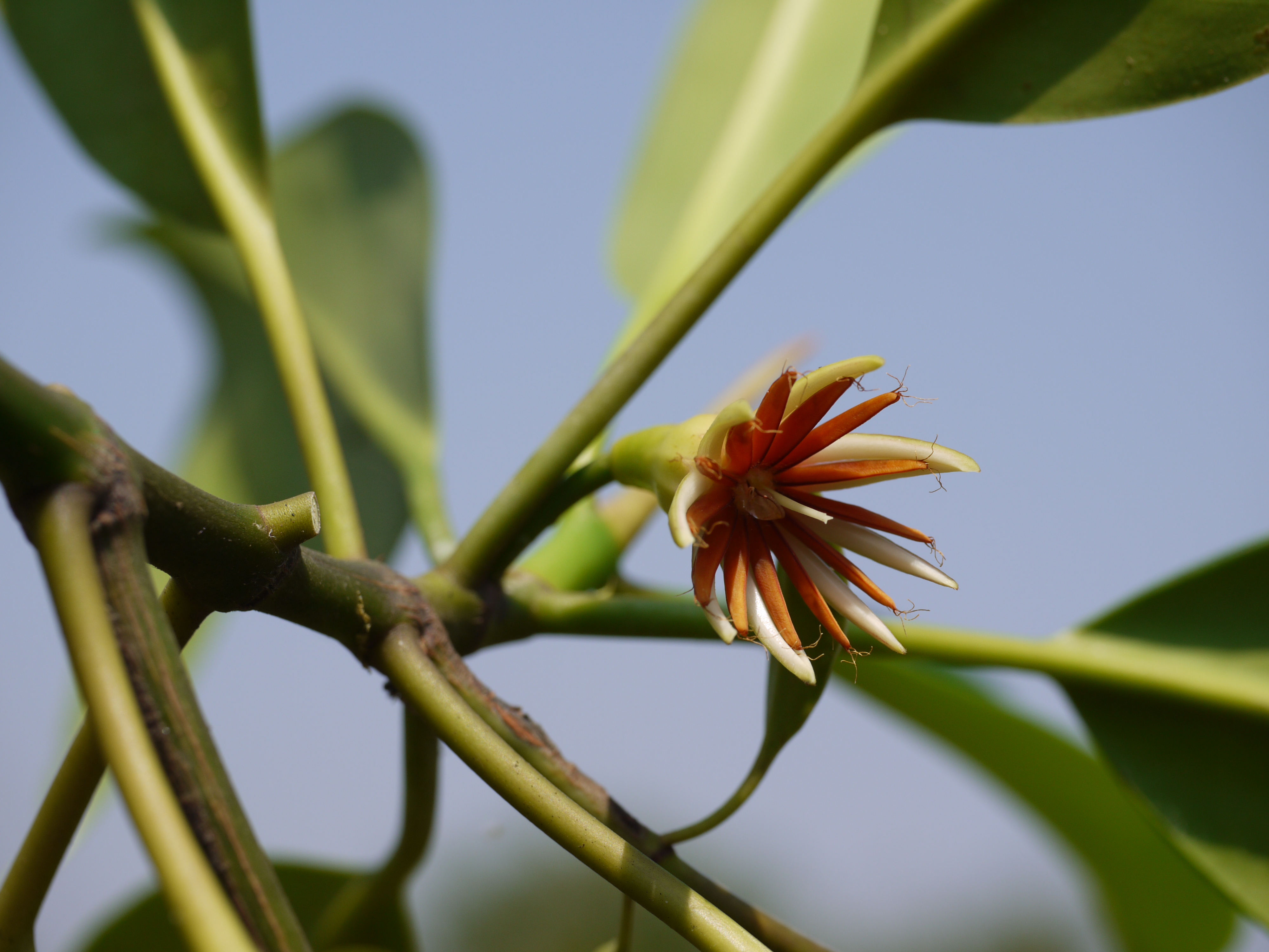 Rhizophoraceae (Burma mangrove family) » Bruguiera gymnorrhiza (L.) Savigny broog-wee-ER-a -- named for Jean Guillaume Bruguiere, French biologist and explorer jim-no-RY-zuh -- from the Greek gymnos (naked) and rhiza (root) commonly known as: black mangrove, Burma mangrove, large-leafed mangrove, oriental mangrove • Bengali: kankra, natinga • Gujarati: સનવર sanavar • Kannada: ಕೊಳಚೆ ಗಿಡ kolache gida • Konkani: इंप्ळी impli • Malayalam: കണ്ടല്‍ kantal • Marathi: झुंबर zumbar • Oriya: banduri • Tamil: sigapukokandam • Telugu: దుద్దుపొన్న dudduponna Native of: e & s Africa, e Asia, India, Sri Lanka, Indo-China, Malesia, n & e Australia, w Pacific References: Flowers of India • bioSearch v 1.2 • NPGS / GRIN • ENVIS - FRLHT